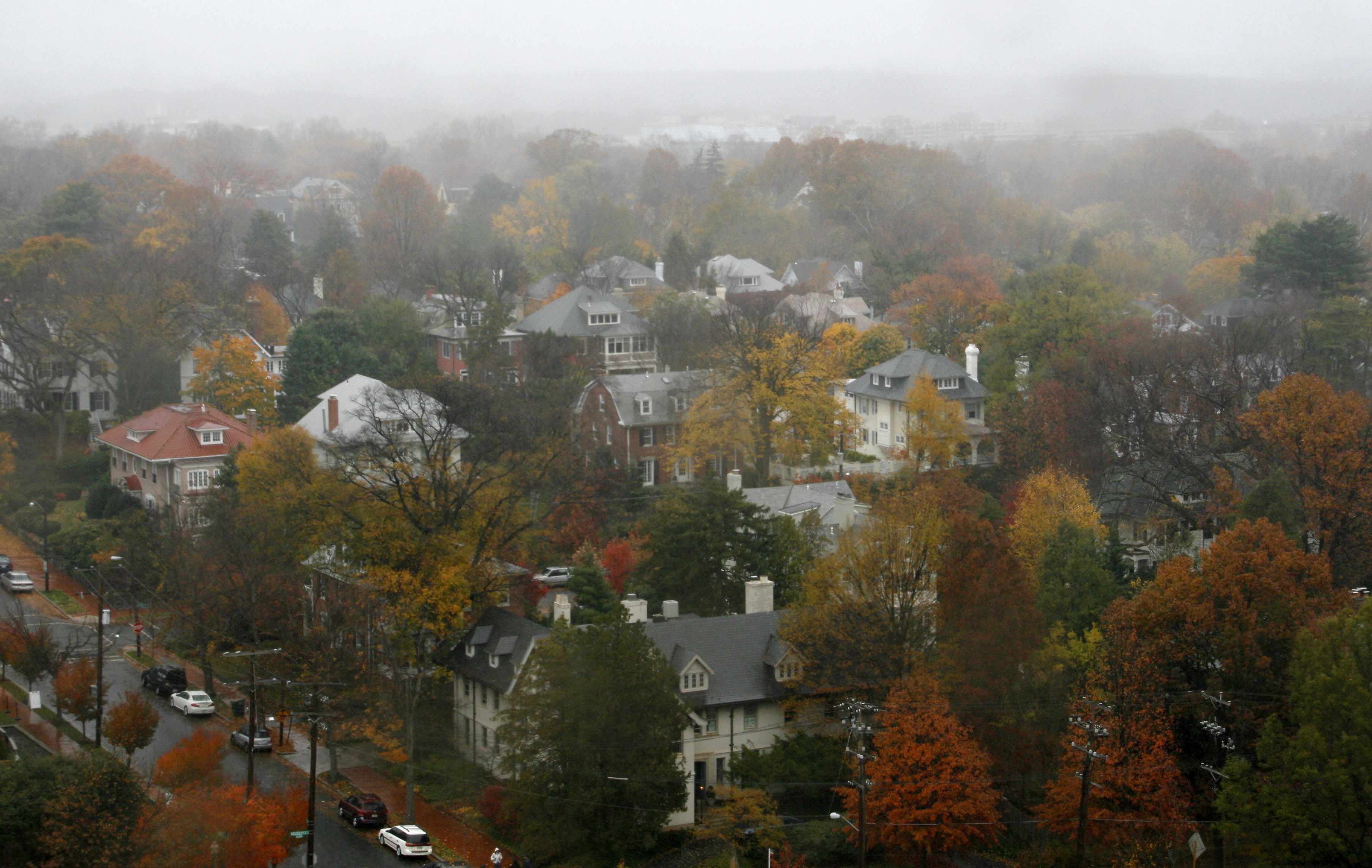 Cathedral Heights, a residential neighborhood in Washington, D.C., viewed from the Pilgrim Observation Gallery at Washington National Cathedral.